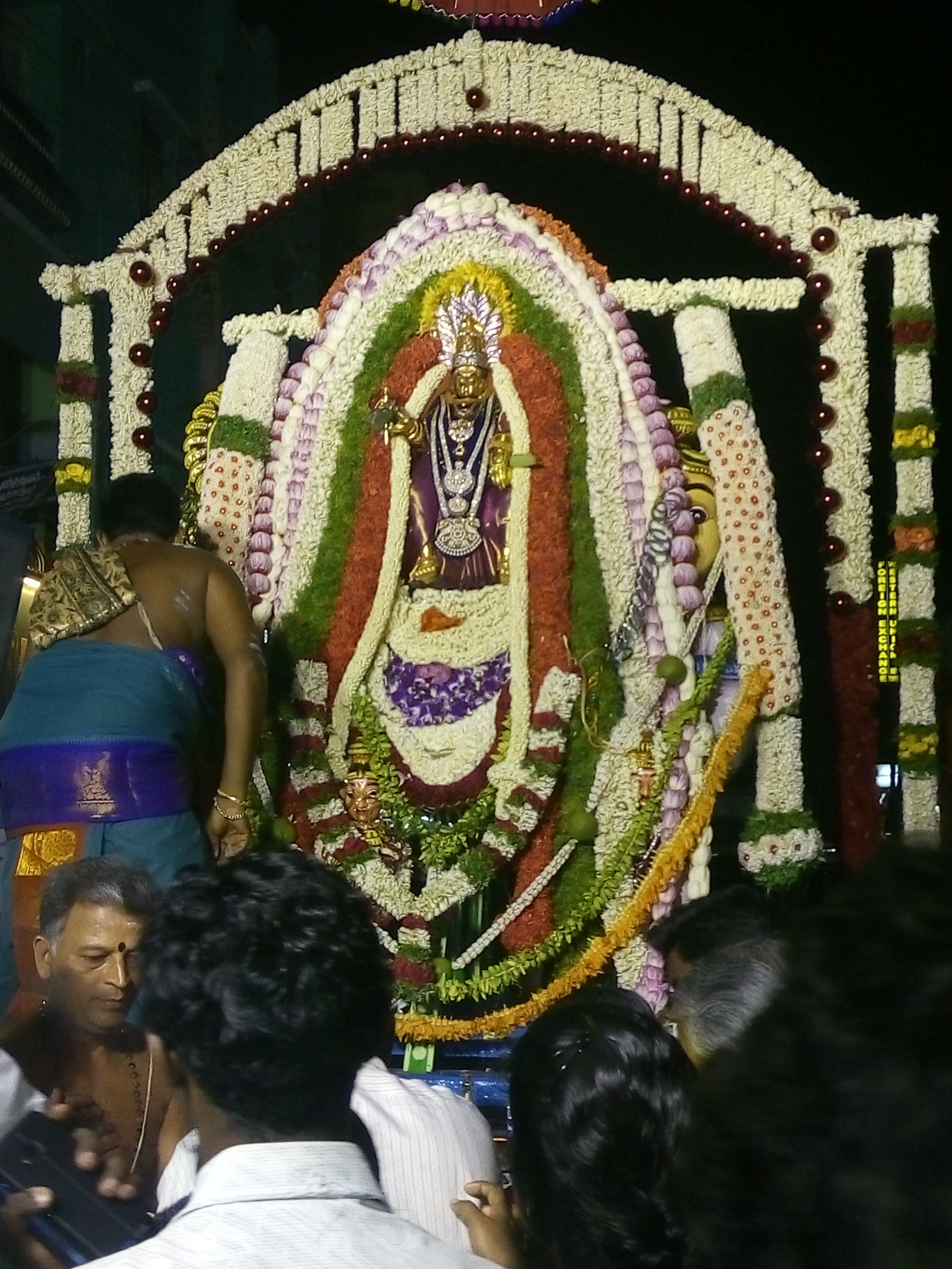 Bhadrakali Amman